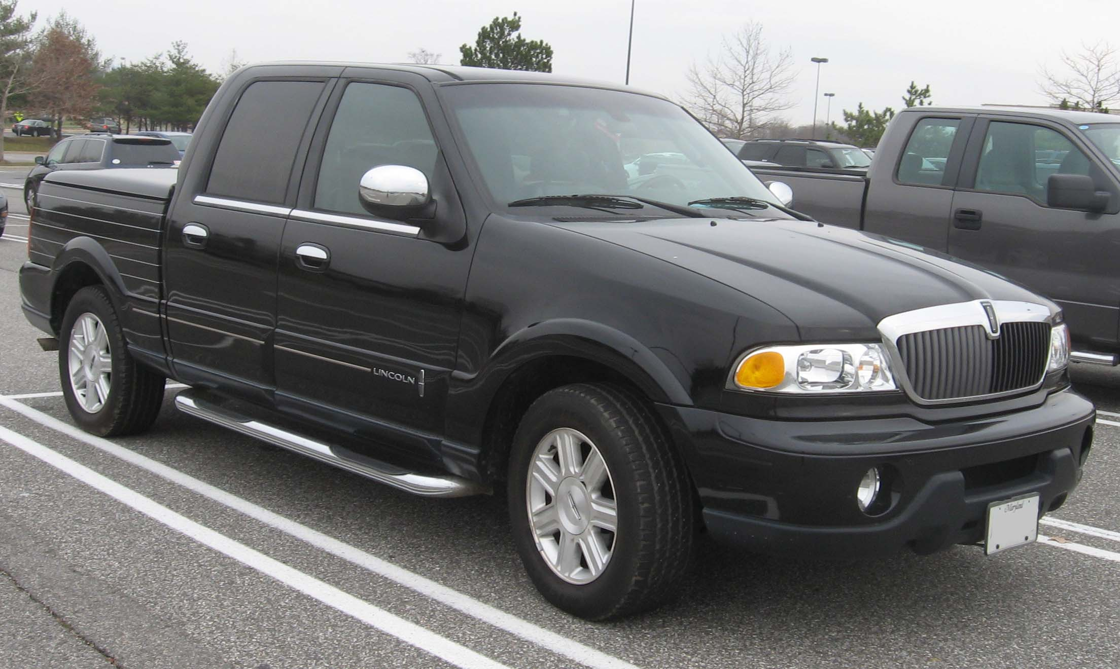 2002 Lincoln Blackwood photographed in Waldorf, Maryland, USA.